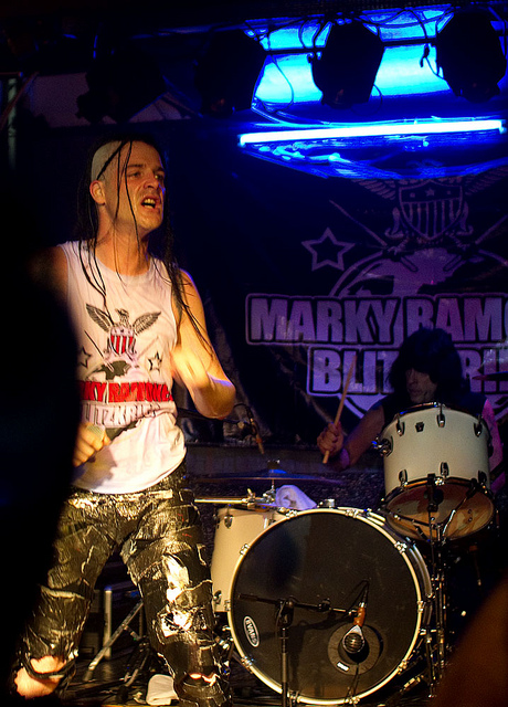 Michale Graves and Marky Ramone. Marky Ramone's Blitzkrieg Zaragoza 21 Mayo 2010